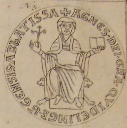 Seal of the 11th abbess of Quedlinburg, Agnes II. 1184-1203